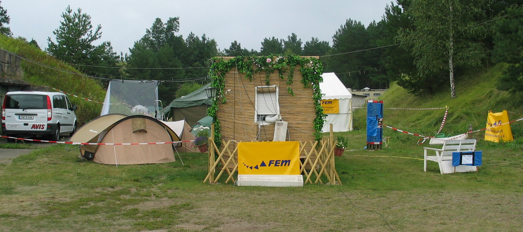 FeM Village at the Chaos Communication Camp 2007 in Finowfurt